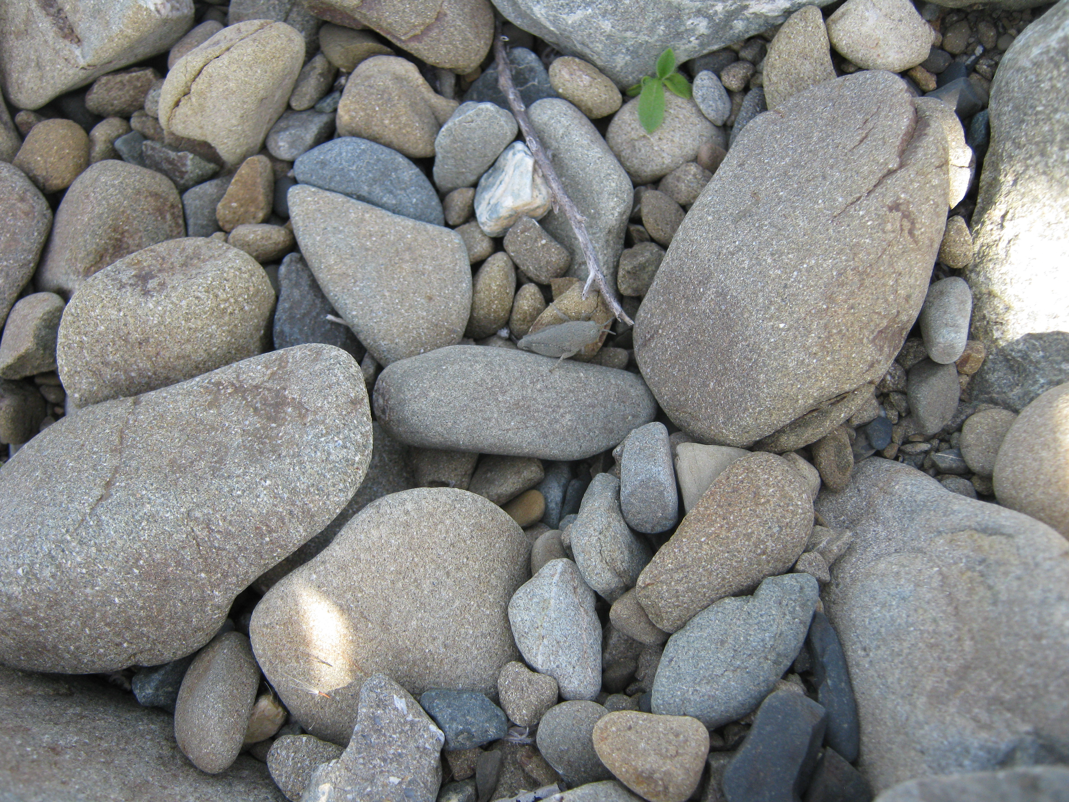 B. robustus nymph blends into the surrounding stony habitat.